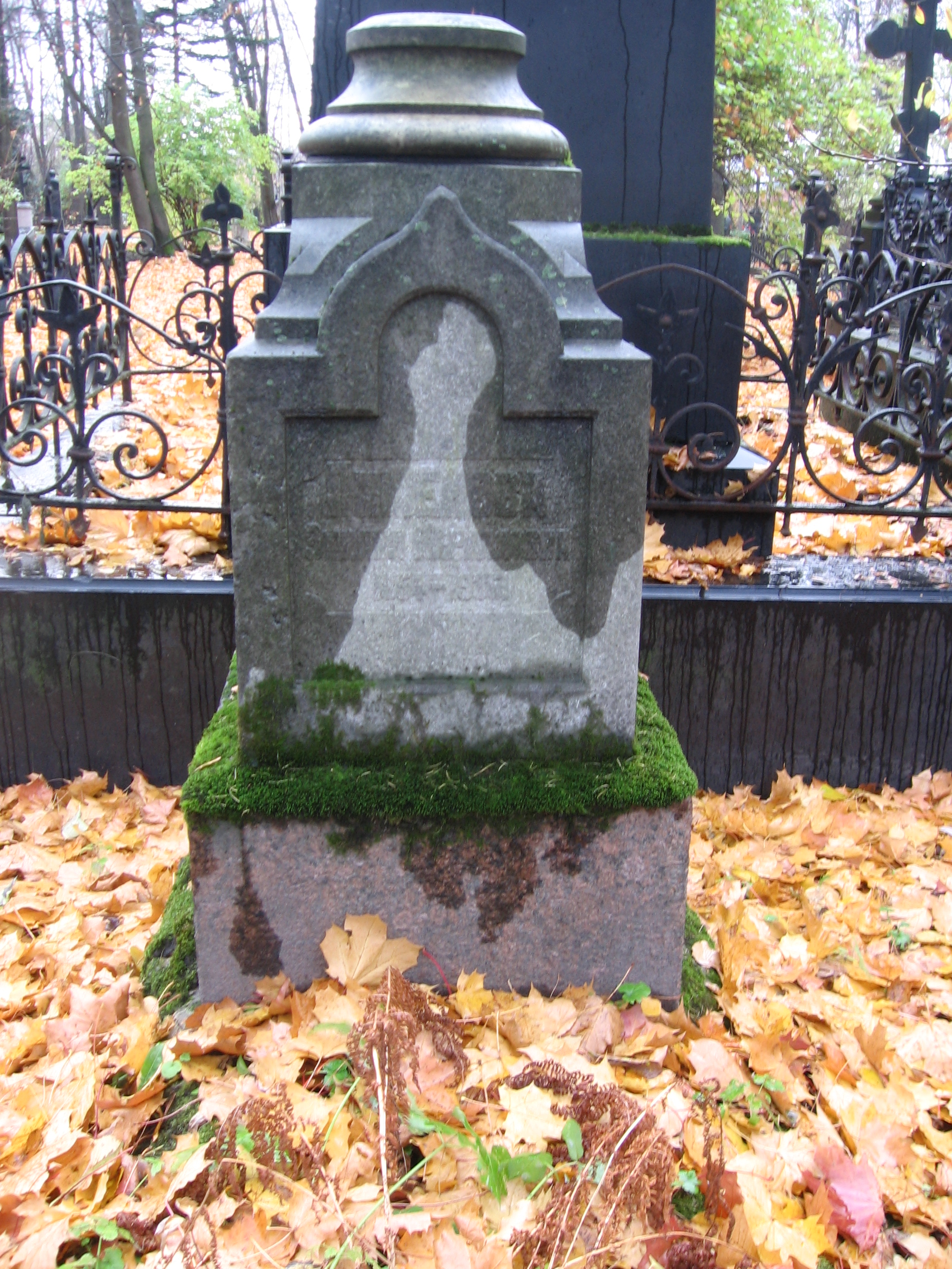 Grave of Emilia Pimenova